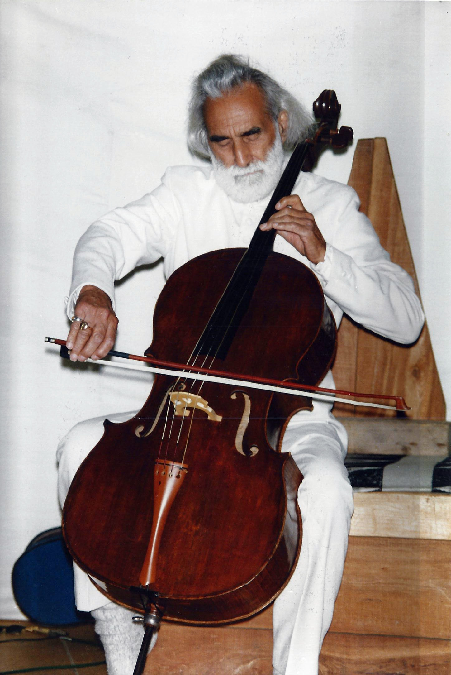 Vilayat Inayat Khan playing cello at the summer-retreat in Olivone.